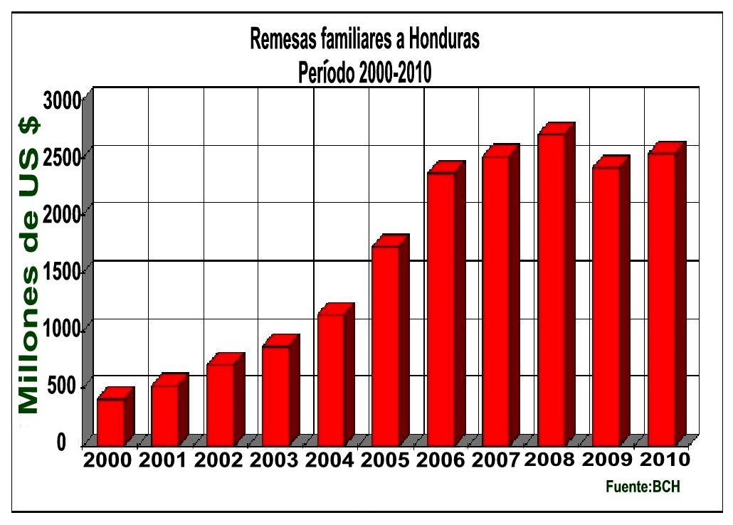 Remesas a Honduras Periodo 2000/2010